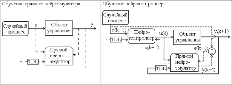 Метод обратного пропуска ошибки через прямой нейроэмулятор: слева – схема обучения прямого нейроэмулятора; cправа – схема обучения нейроконтроллера